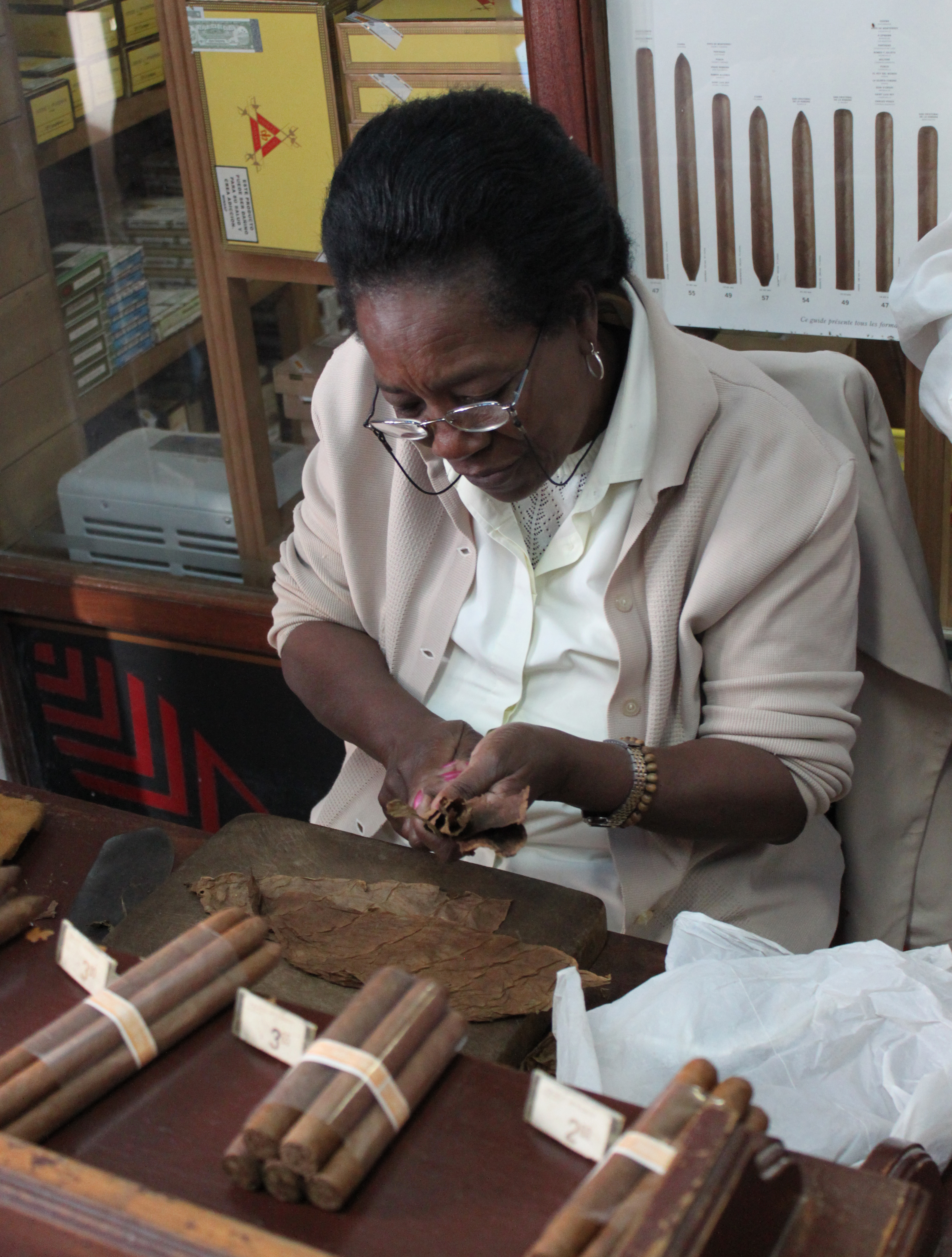 Cigar production in Havana, Cuba